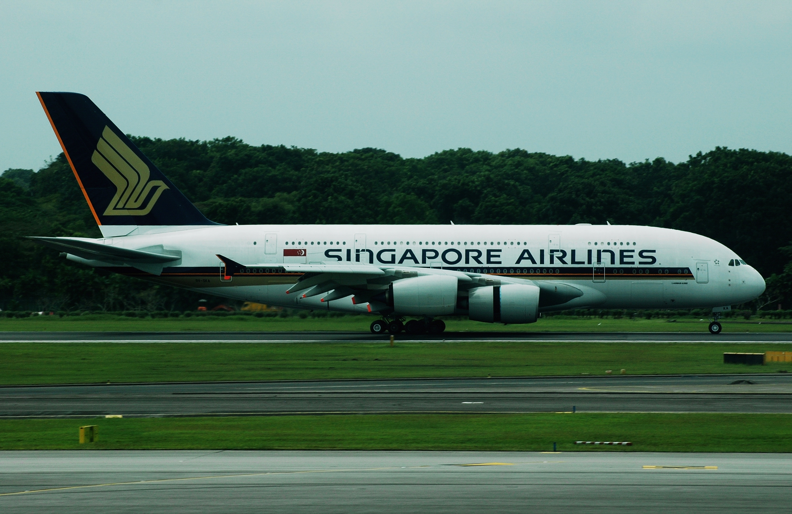 Singapore Airlines Airbus A380-800 (9V-SKA) landing on runway 02L at Singapore Changi Airport (SIN/WSSS).